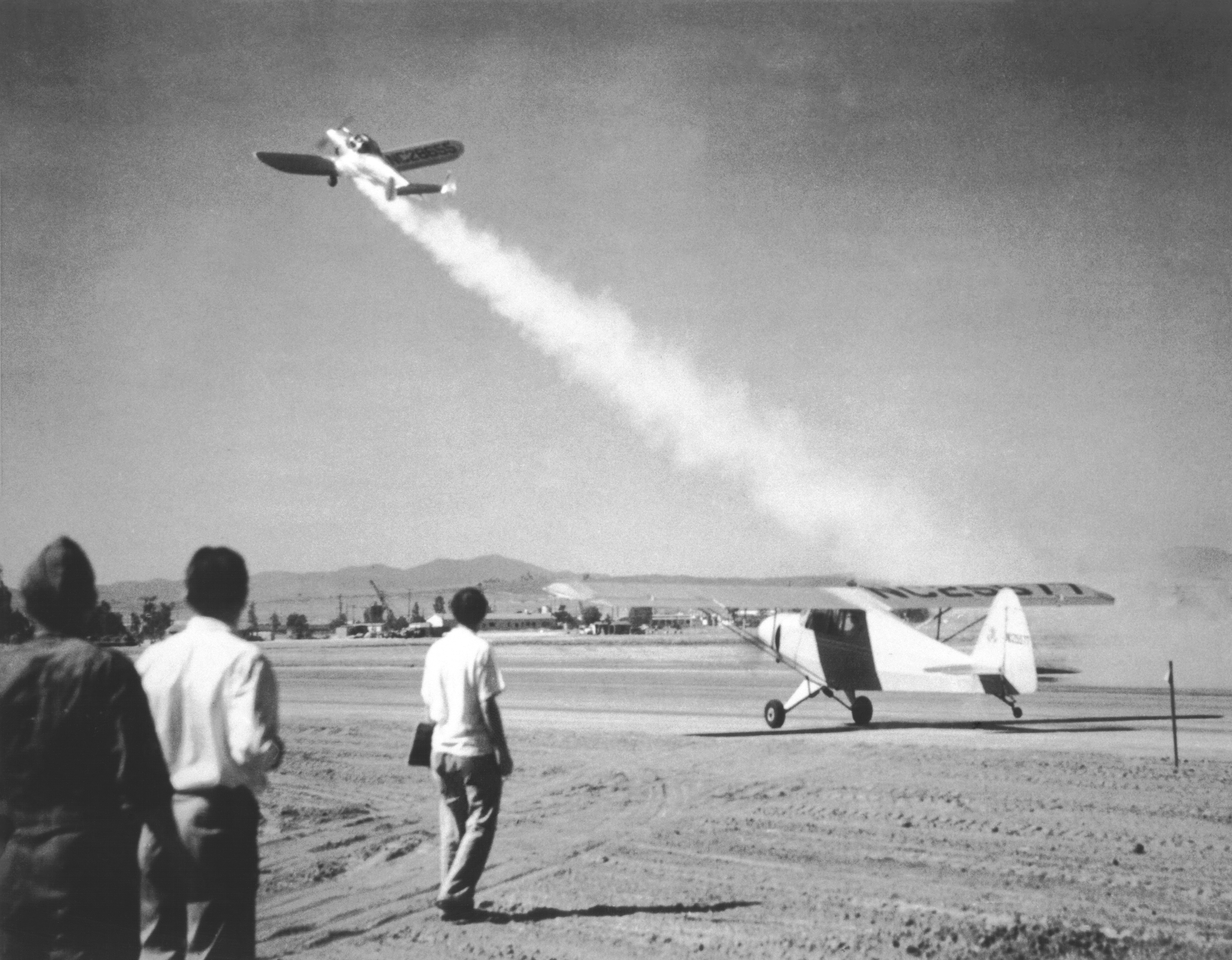 Take-off of America's first "rocket-assisted" airplane, an Ercoupe fitted with a GALCIT developed solid propellent 28 pound thrust JATO (Jet Assisted Take-Off) booster. The Ercoupe took off from March Field, California and was piloted by Captain Homer A. Boushey Jr.